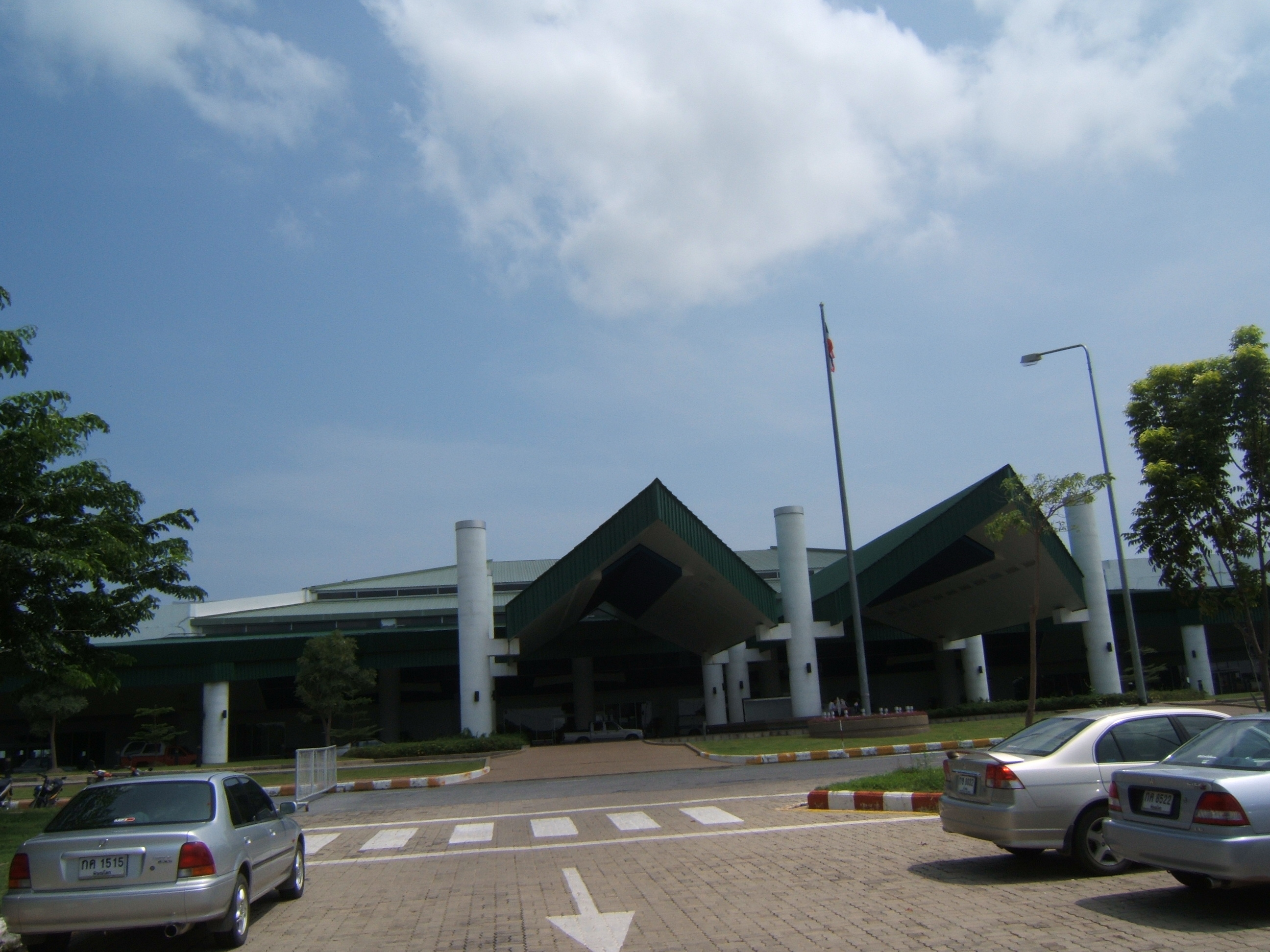 New Phitsanulok Airport (opened 2005)